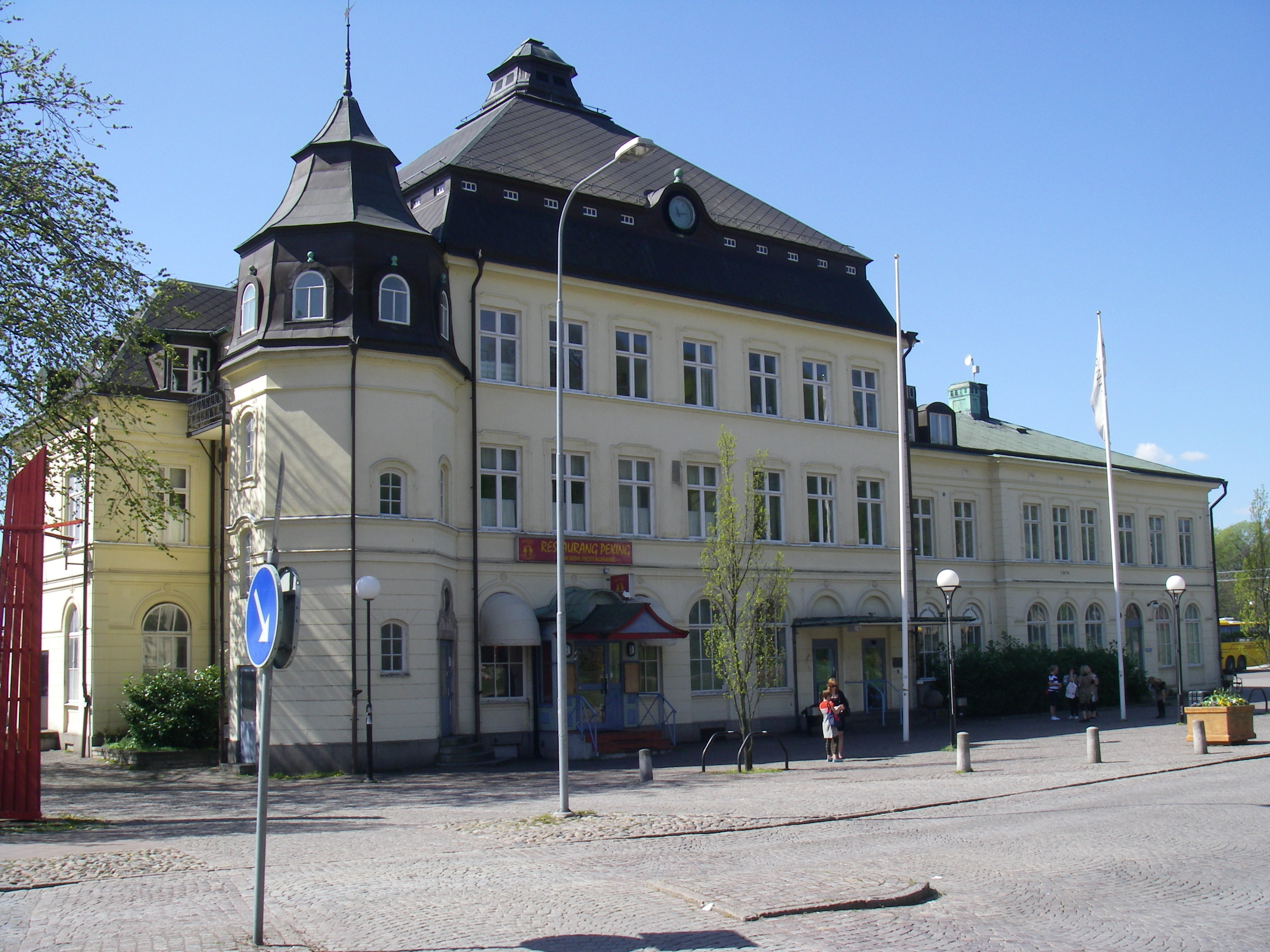 Kalmar Central Station